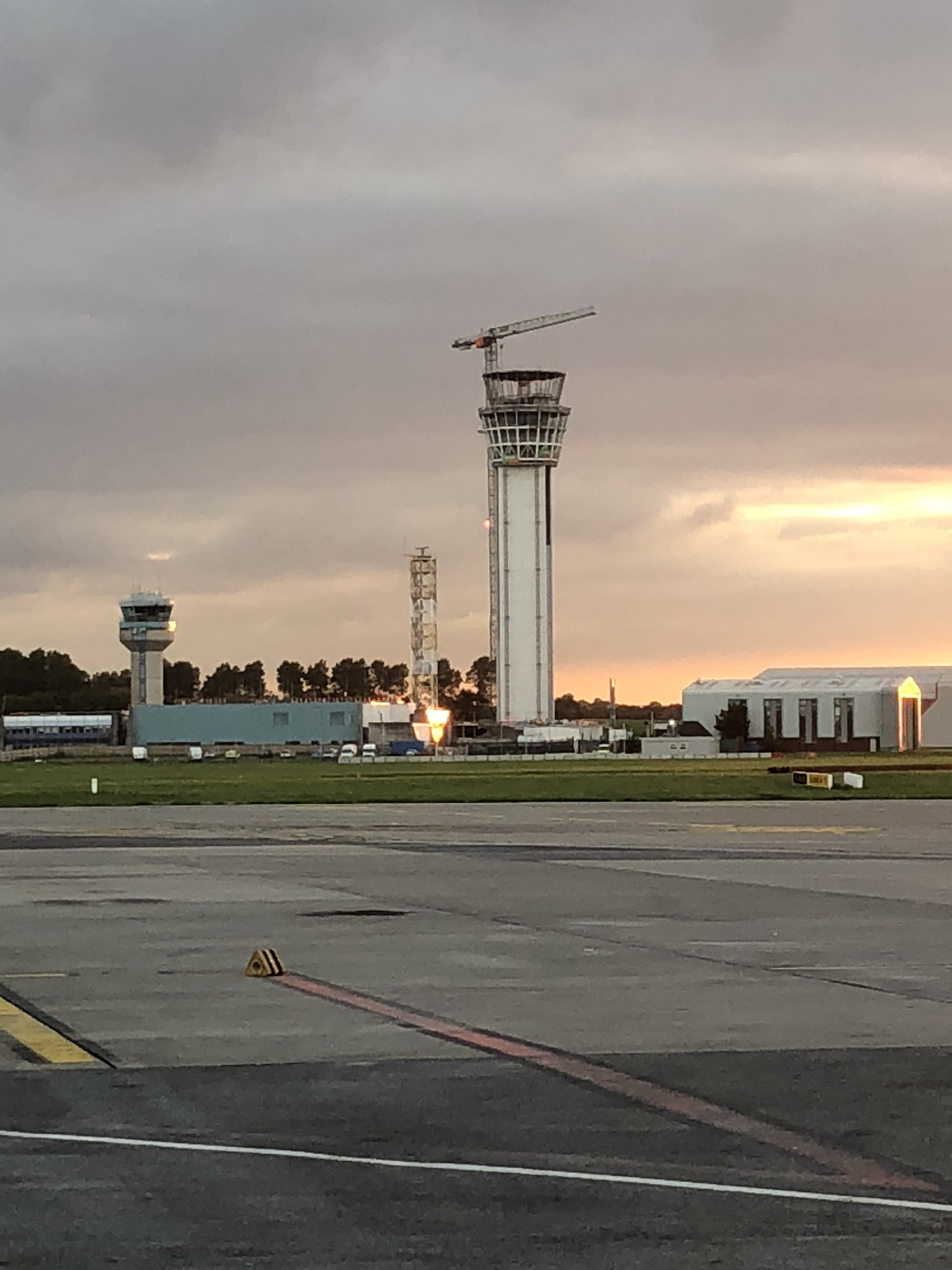 Dublin airport tower under construction 1 sep 2018